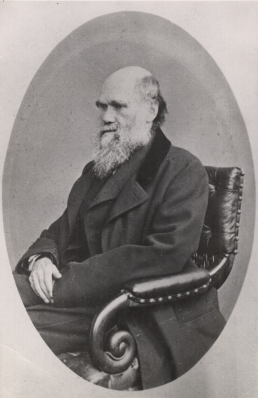 A photograph of Charles Darwin from 1867 by Ernest Edwards (1837-1903)